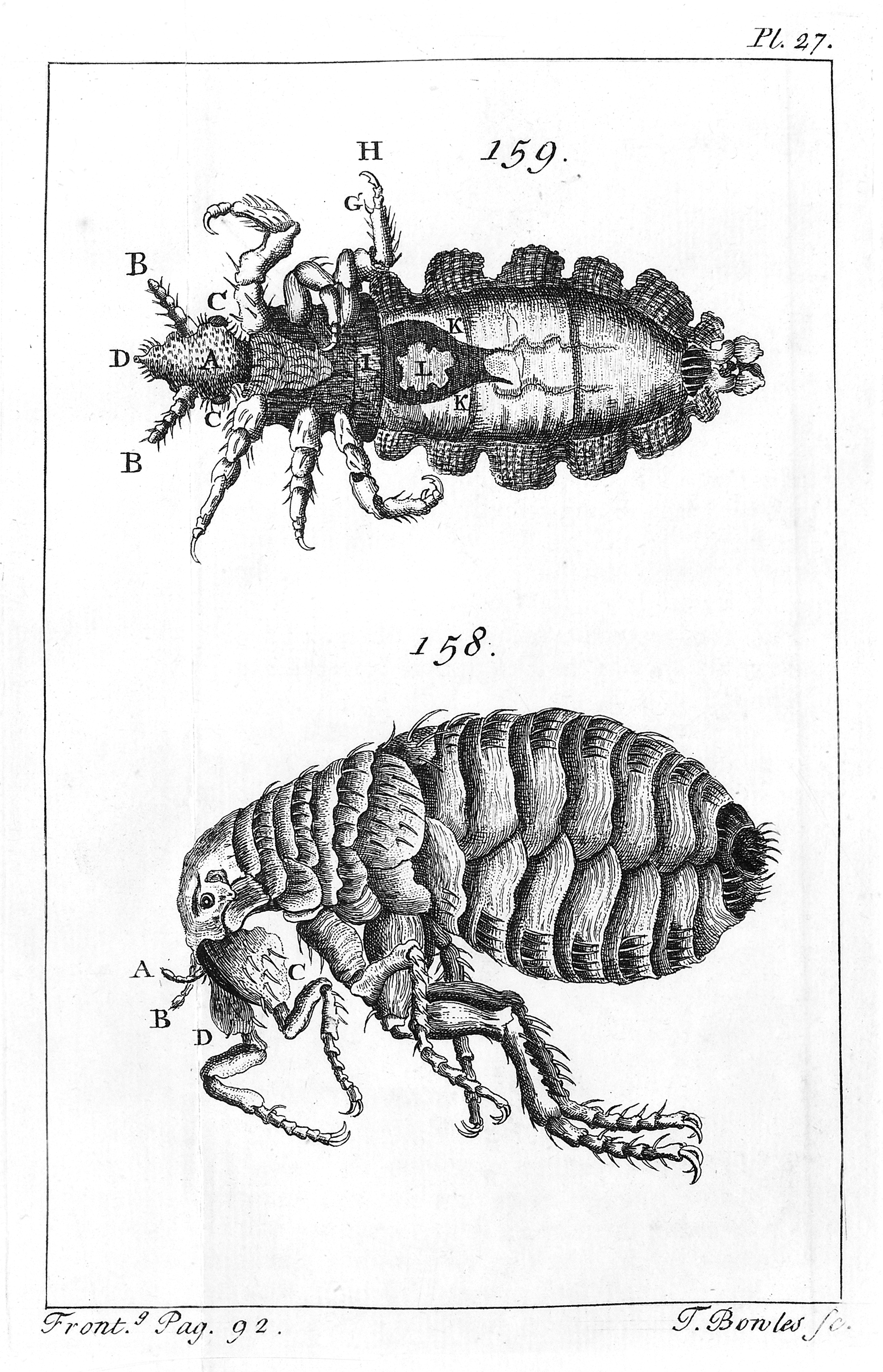 The flea and the louse. The diagram of the flea is after Hooke. Rare Books Keywords: Microscopy